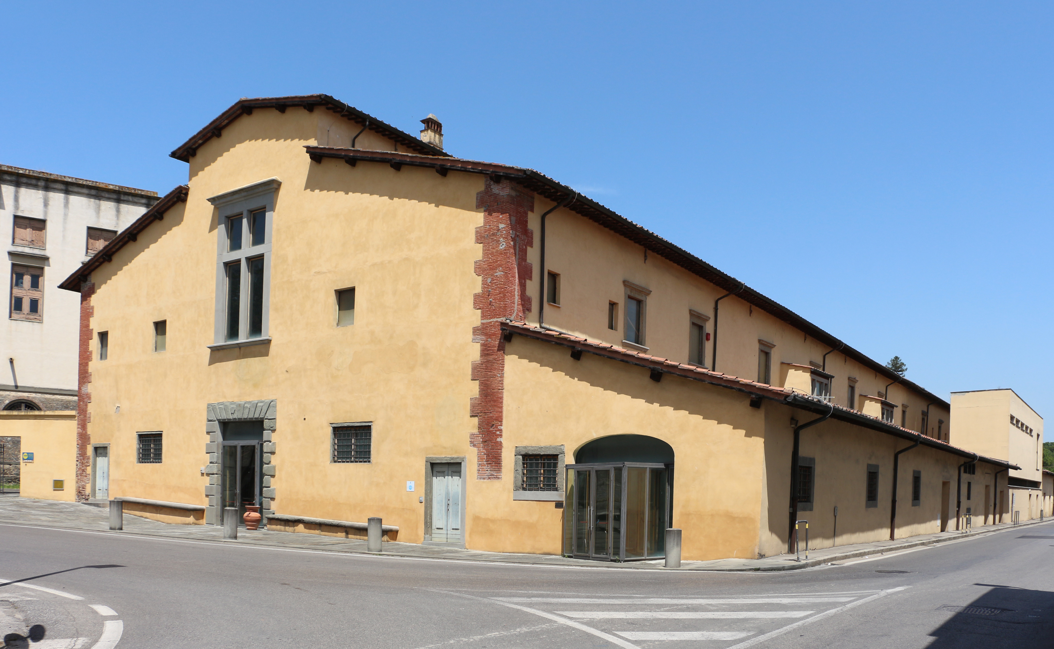 Poggio a Caiano